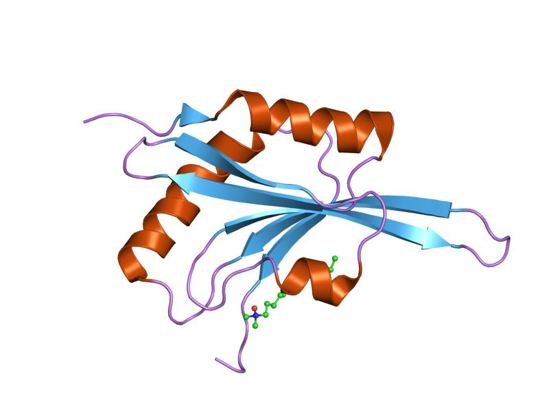 Cartoon representation of the molecular structure of protein registered with 1f7s code.